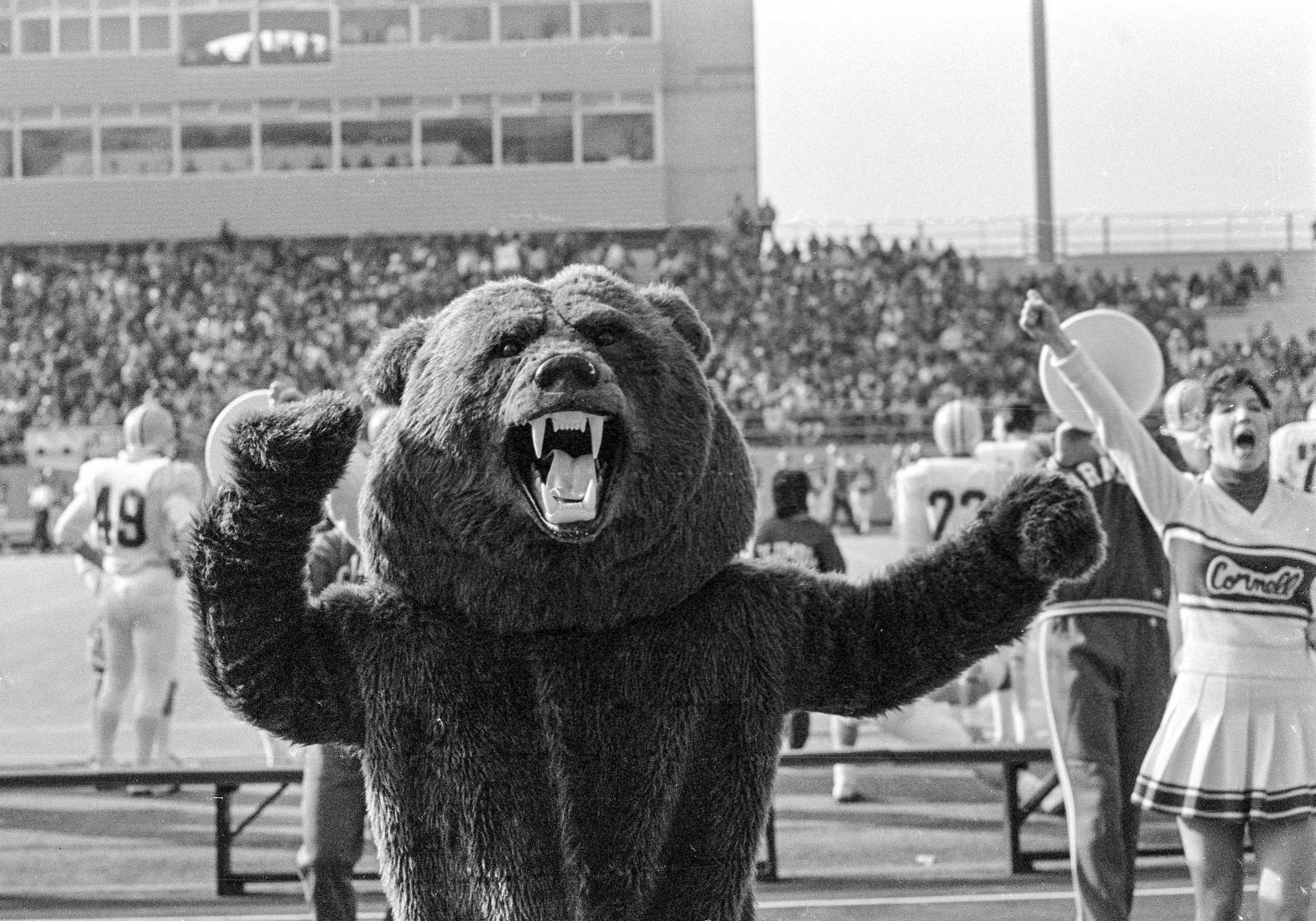 Cornell University Mascot at Homecoming 1987. Note the Schoellkopf West stands behind the mascot, demolished in 2016.